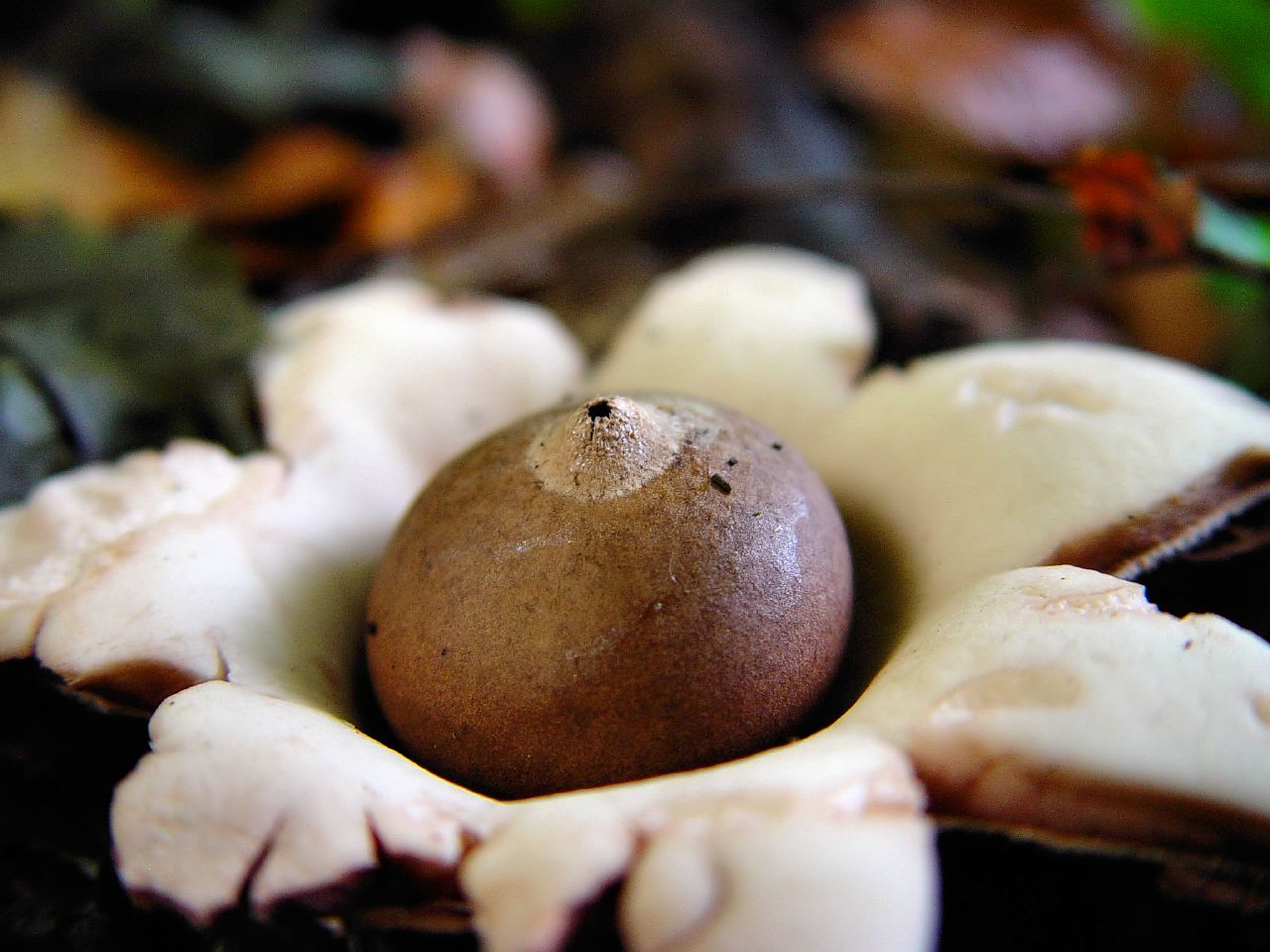 Geastrum triplex, a mushroom from the Geastraceae or "earthstars" family .